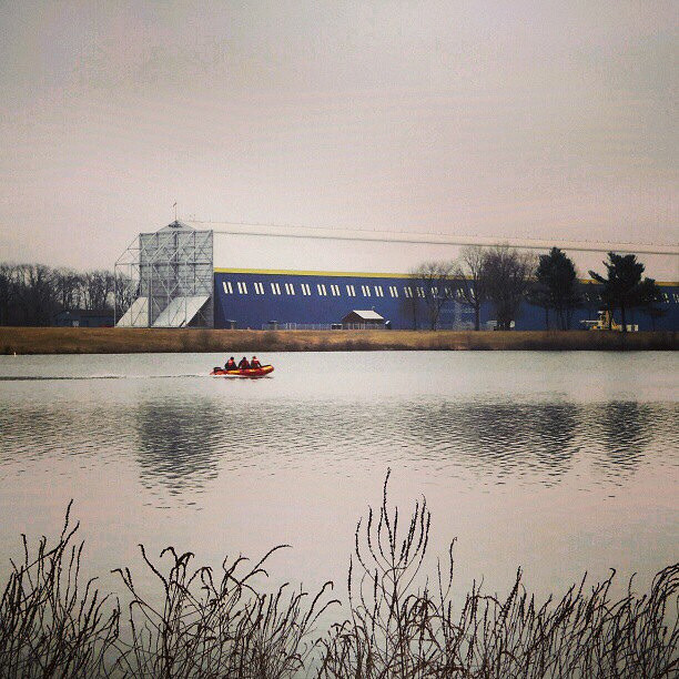 Original description: (Stumbled upon Wingfoot Lake Park near Akron. Great view of the Goodyear Blimp Hangar - for real!)This facility is in Suffield Township, Portage County, Ohio